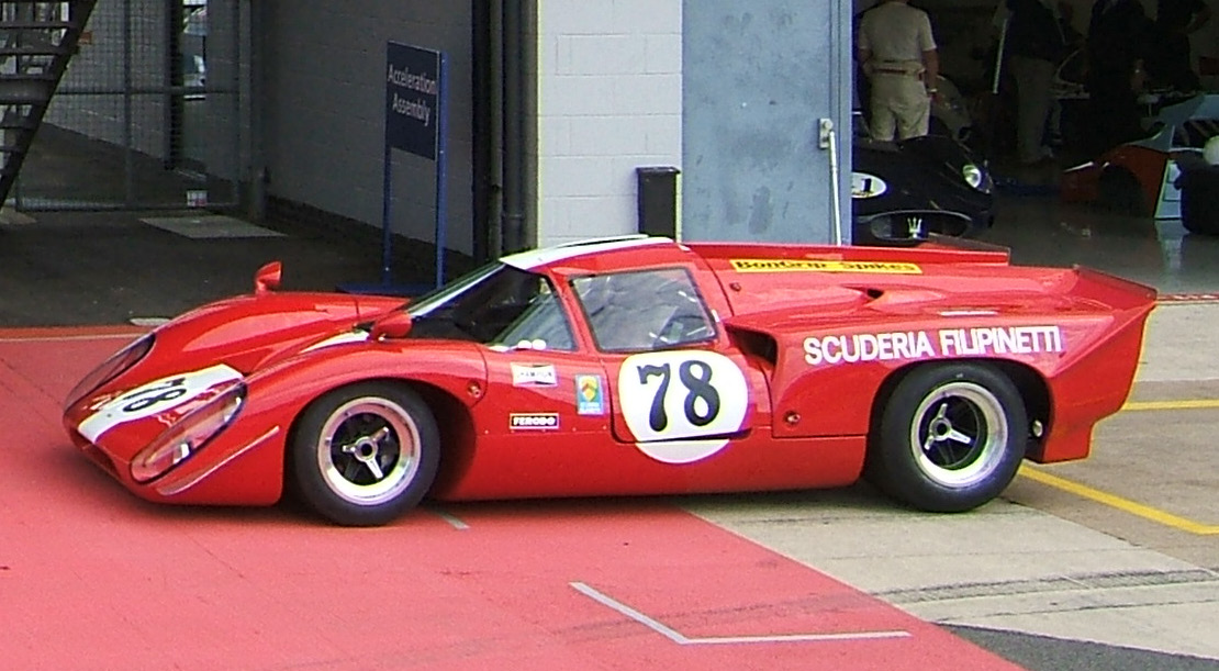 A Lola T70, in the pitlane at Silverstone Circuit, July 2007.